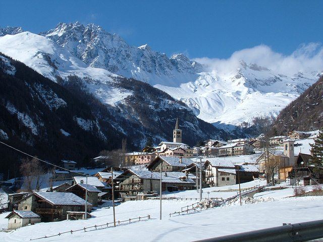 Overview of Ollomont (Aosta Valley, Italy)